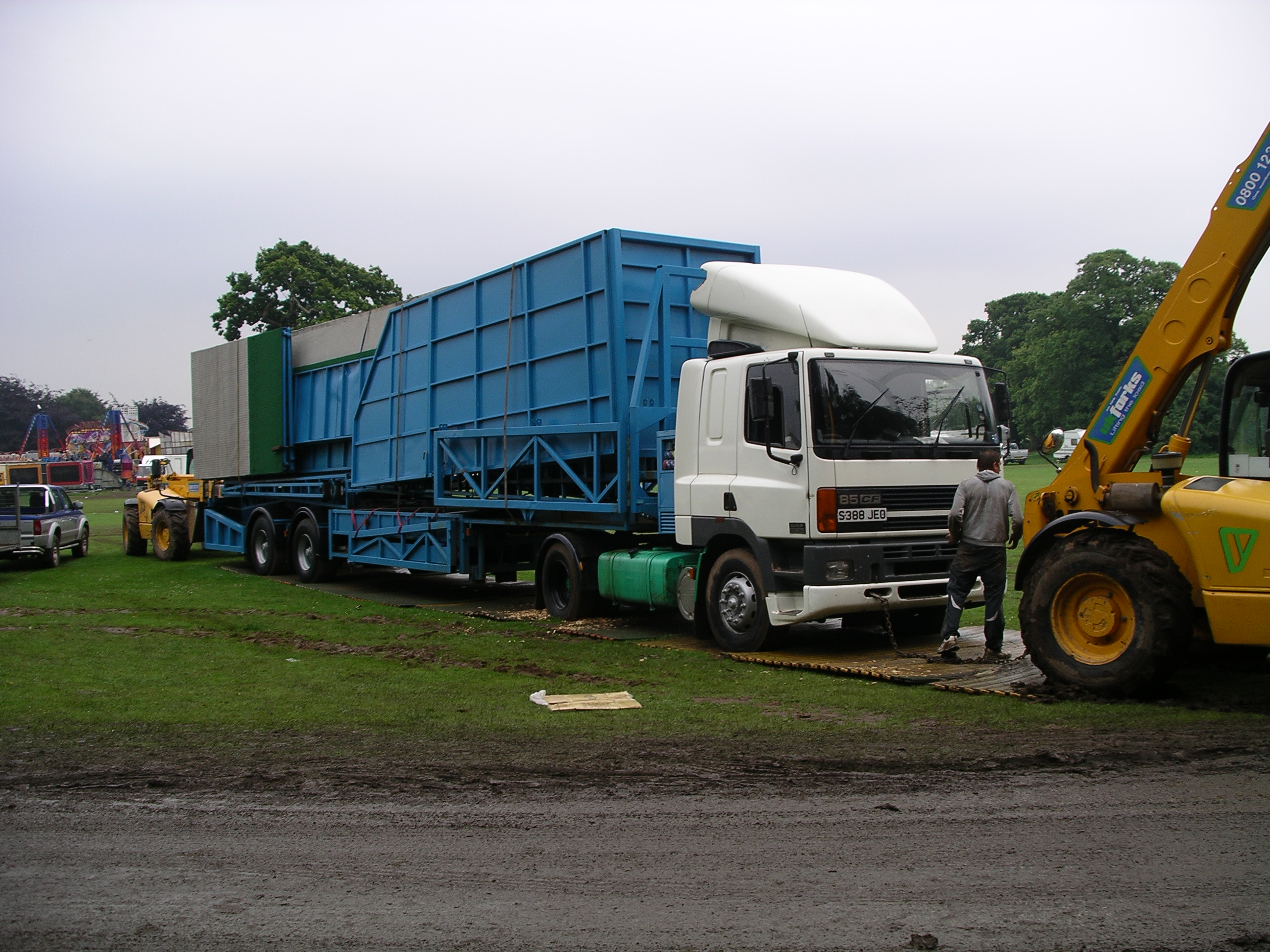 Photo of a lorry stuck in mud in a park in England. DAF 85 CF.